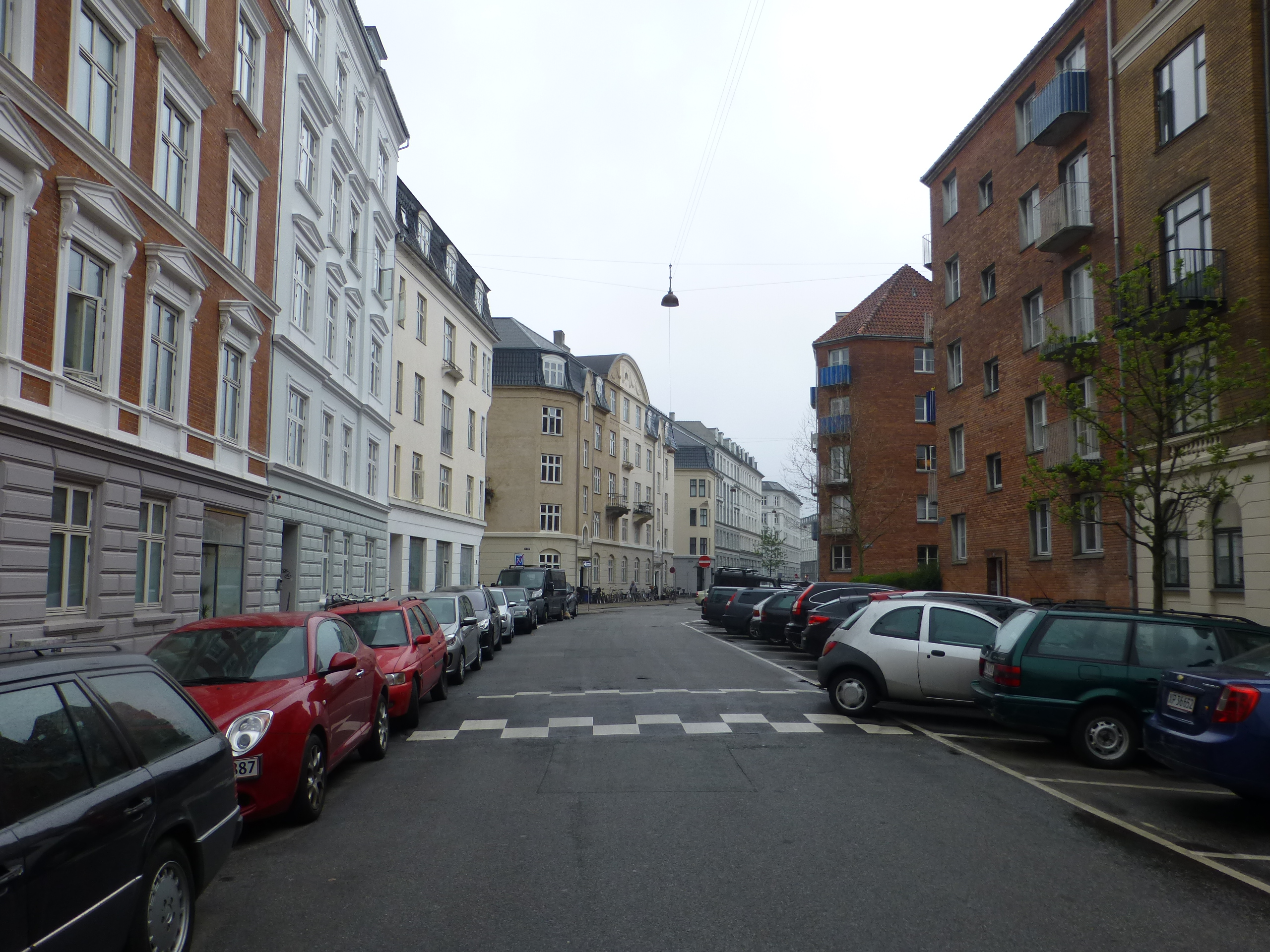 The street Holsteinsgade at Lipkesgade in Østerbro in Copenhagen.